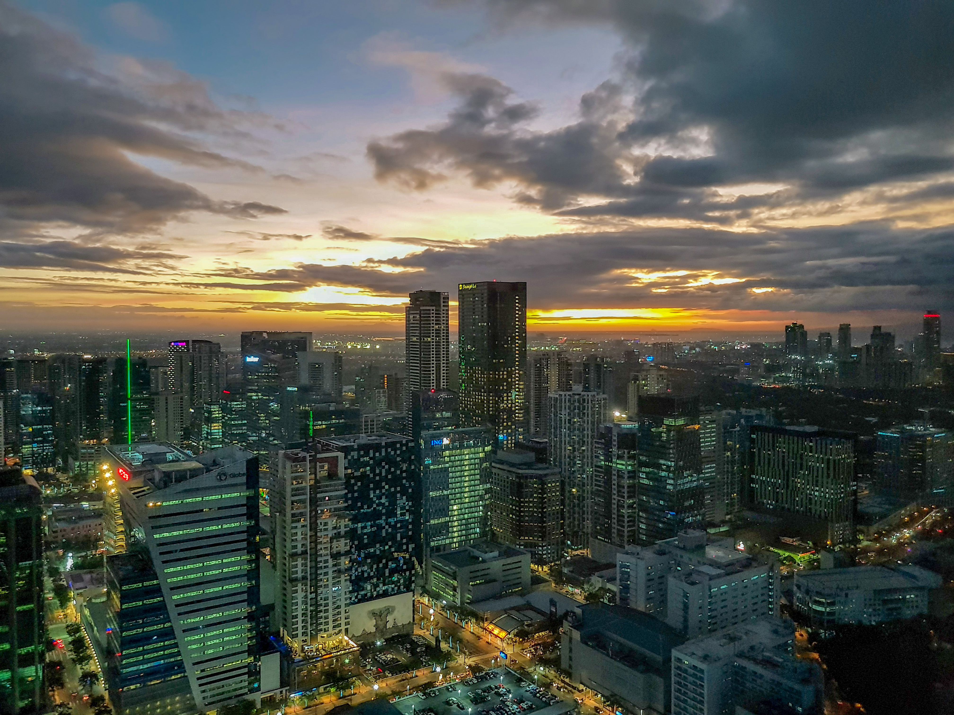 View from Grand Hyatt Manila in Bonfacio Global City, Taguig, Metro Manila